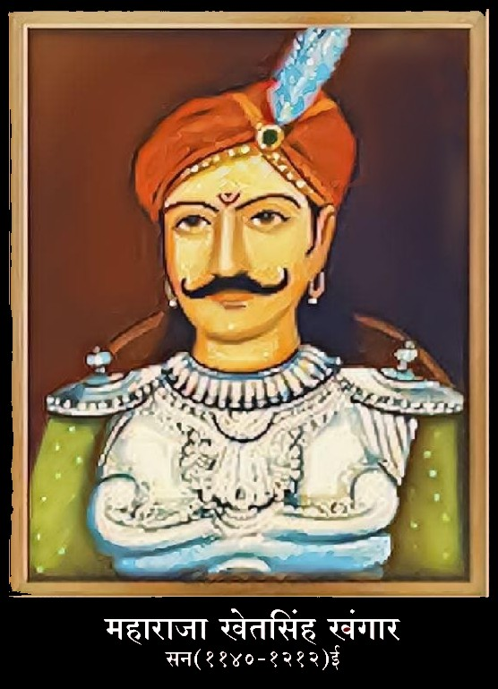 Photo of Maharaja Khet Singh Khangar stored in National Museum Jhansi